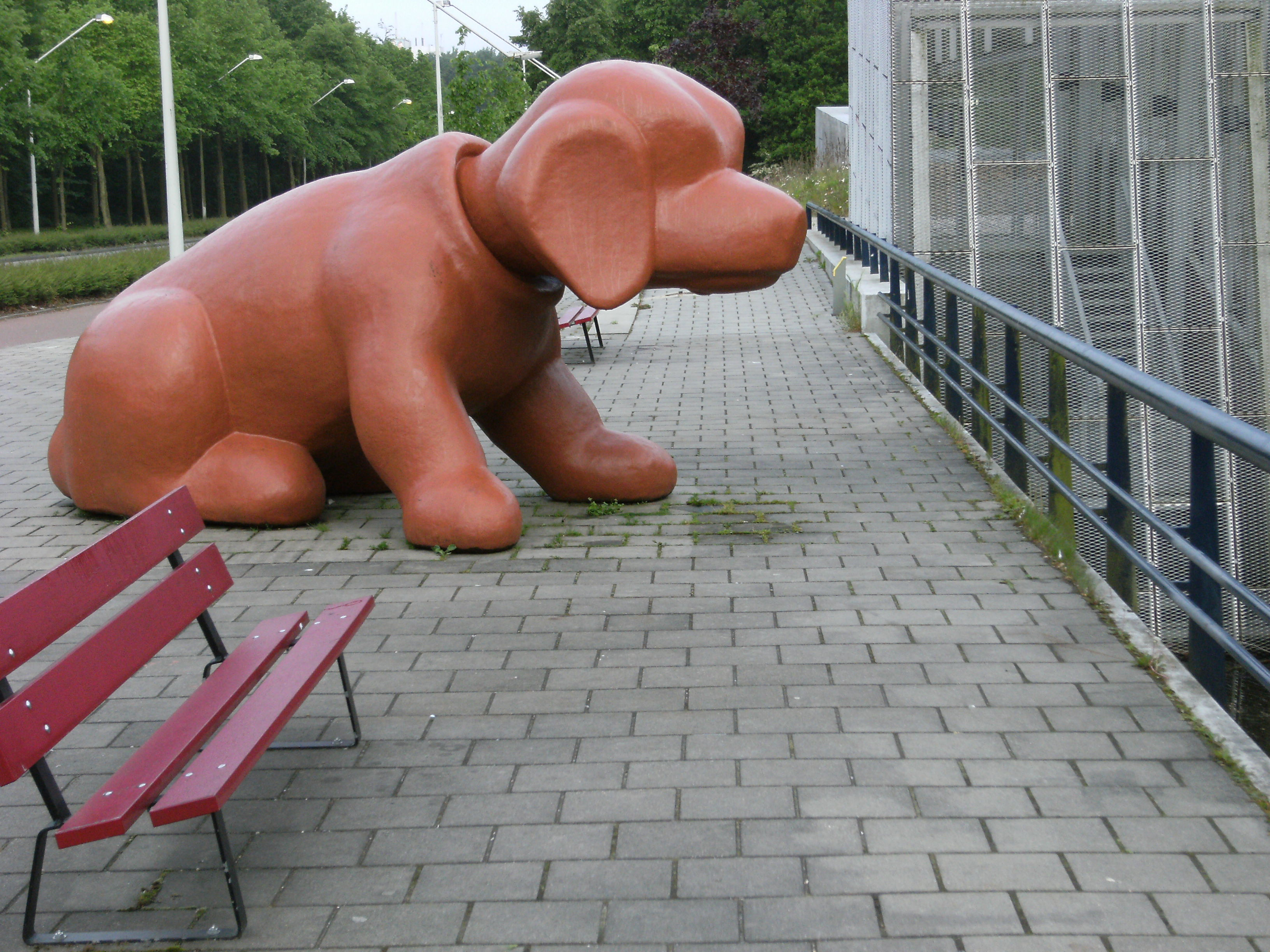 Sculpture 2 dogs (2002) by Marjolijn Mandersloot on bridge in Postjesweg over Rembrandtpark in Amsterdam/The Netherlands